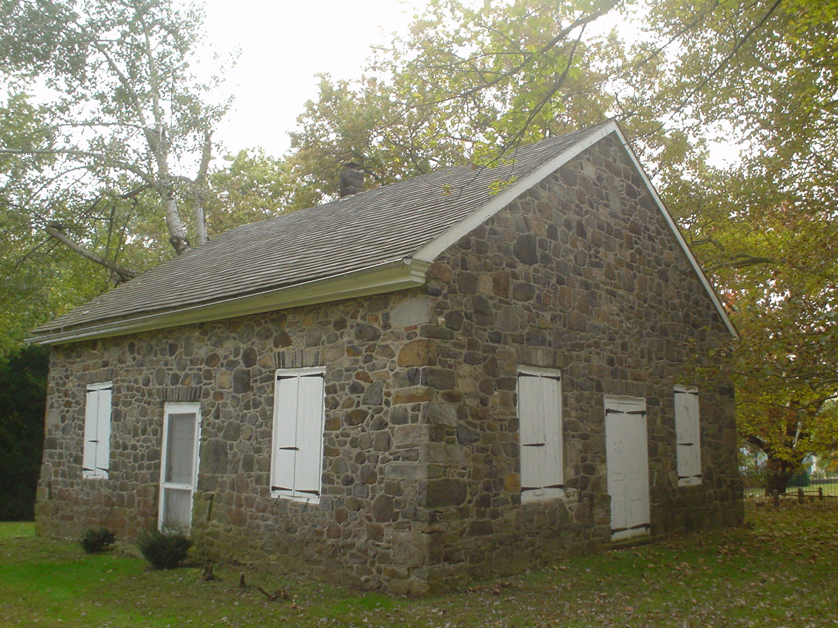 Quaker Meetinghouse (NRHP) in Chichester, PA at 611 Meetinghouse Road.